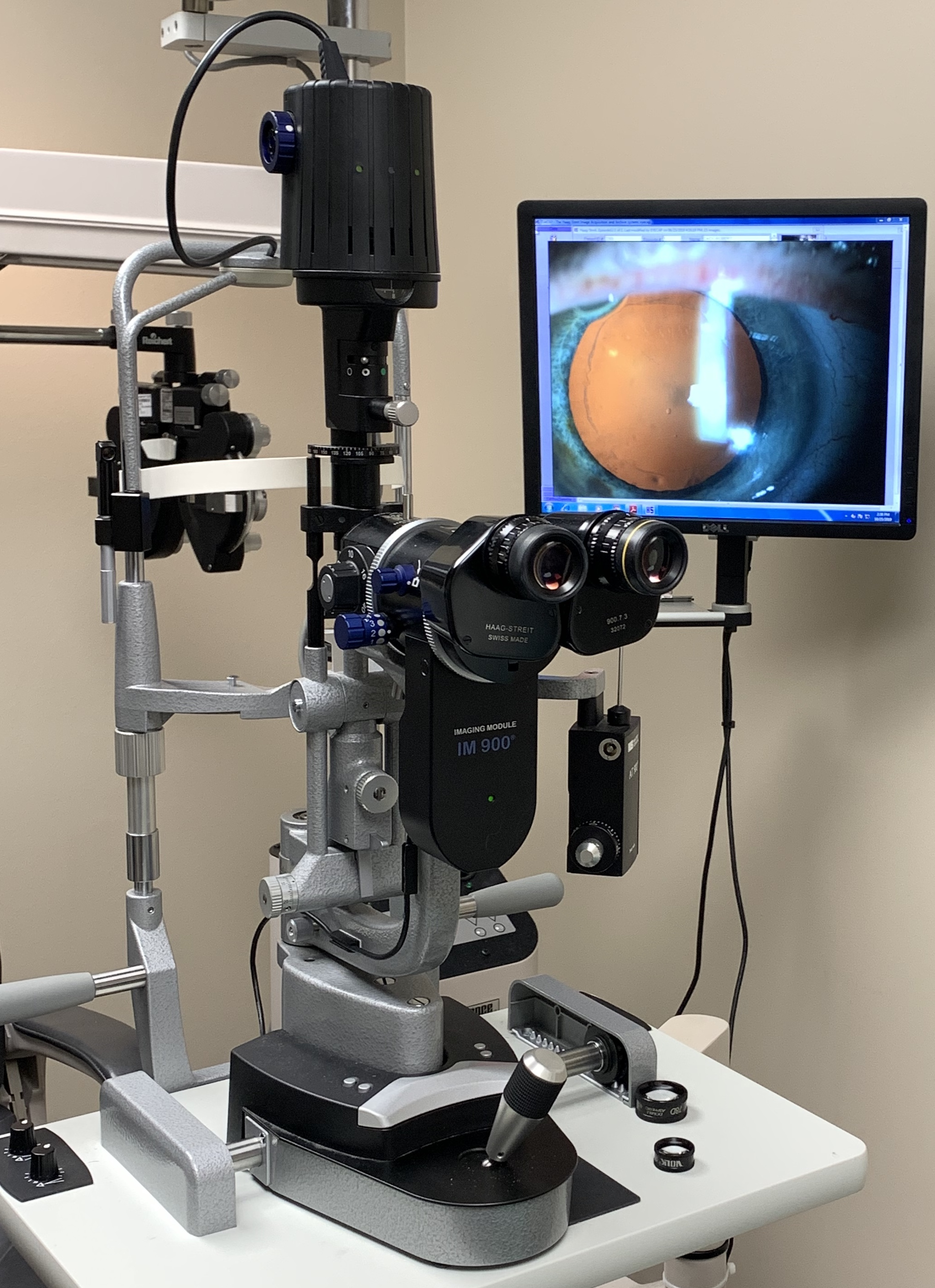 A slit lamp, when used in conjunction with a binocular microscope, allows the eye to be examined with a beam (or "slit") of light whose height and width can be adjusted. When directed at an angle, the light beam accentuates the anatomic structures of the eye and the microscope allows for greater magnification (10 - 25 times) than most handheld devices. Image displayed on monitor shows circumferential exfoliation (delamination) of the anterior lens capsule in a blue-eyed individual.